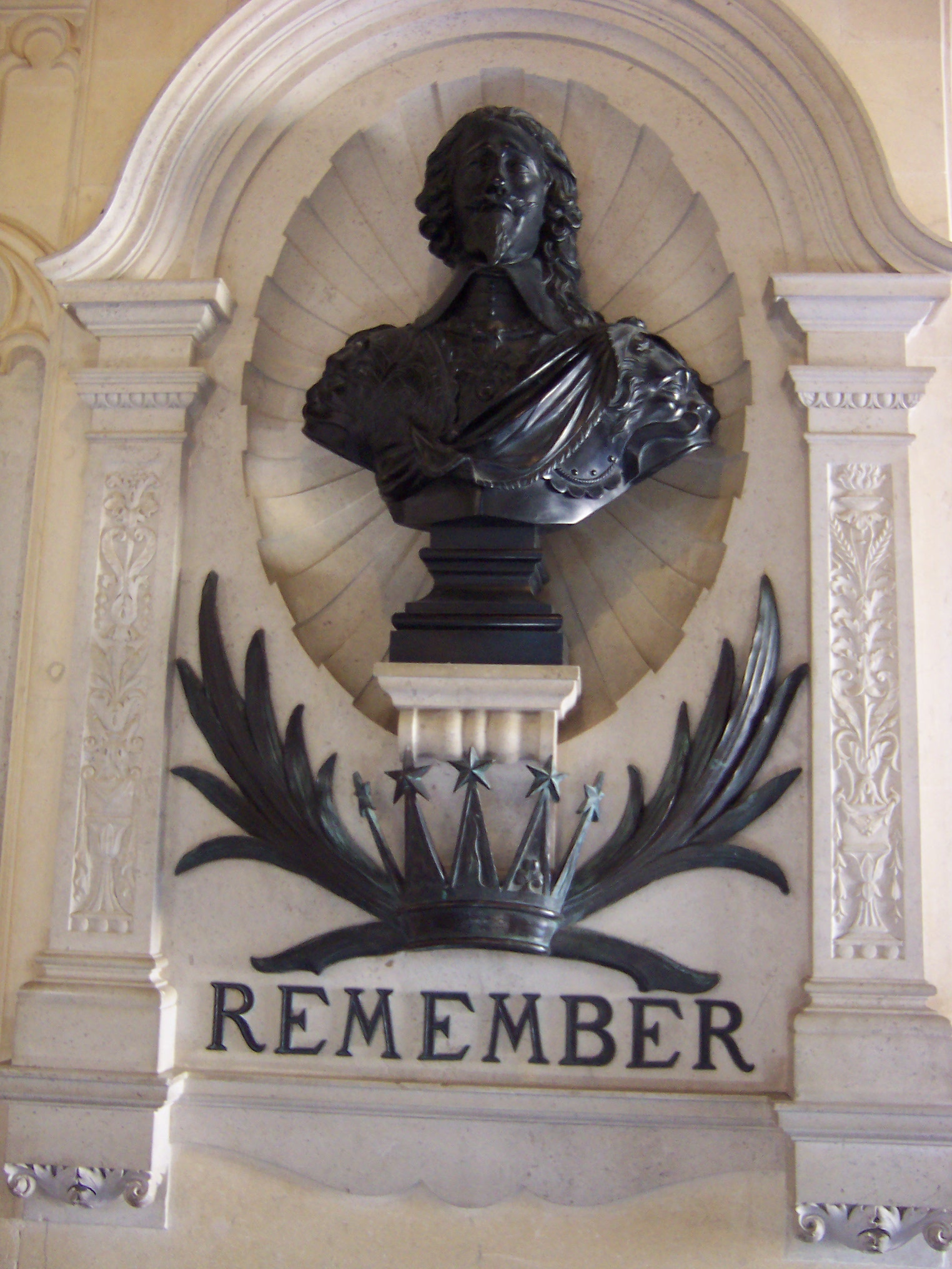 A bust of Charles I of England at Carisbrooke Castle.